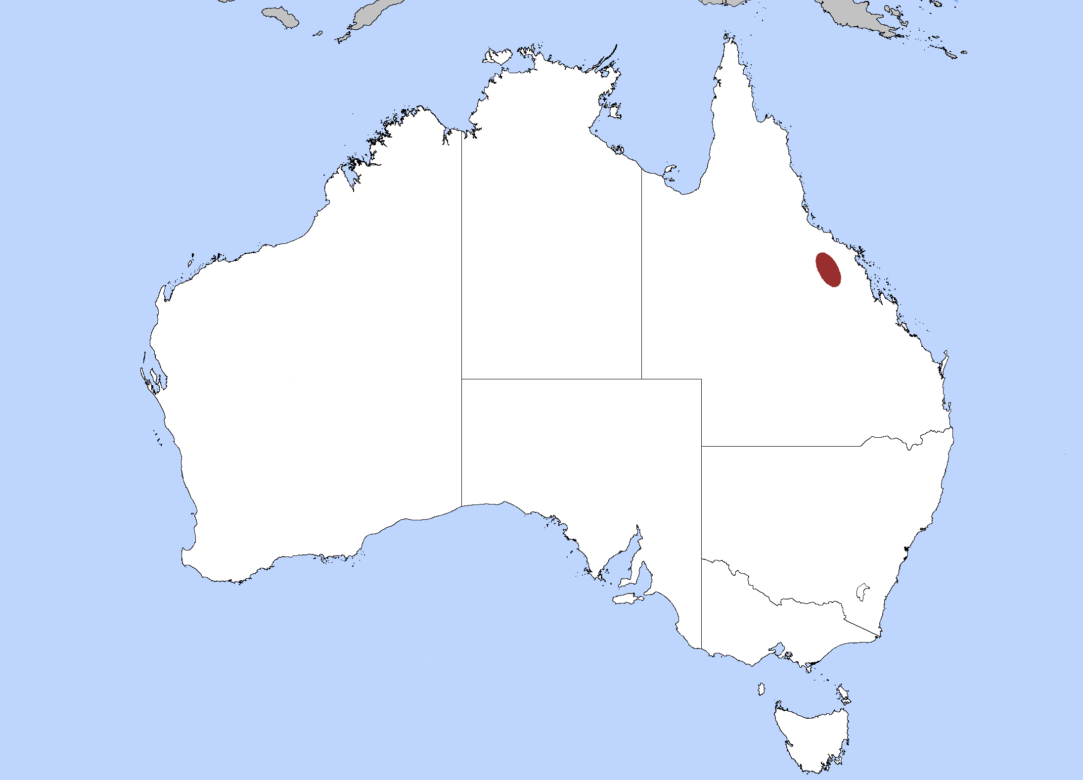 The Distribution of the Mt Cooper Striped Lerista